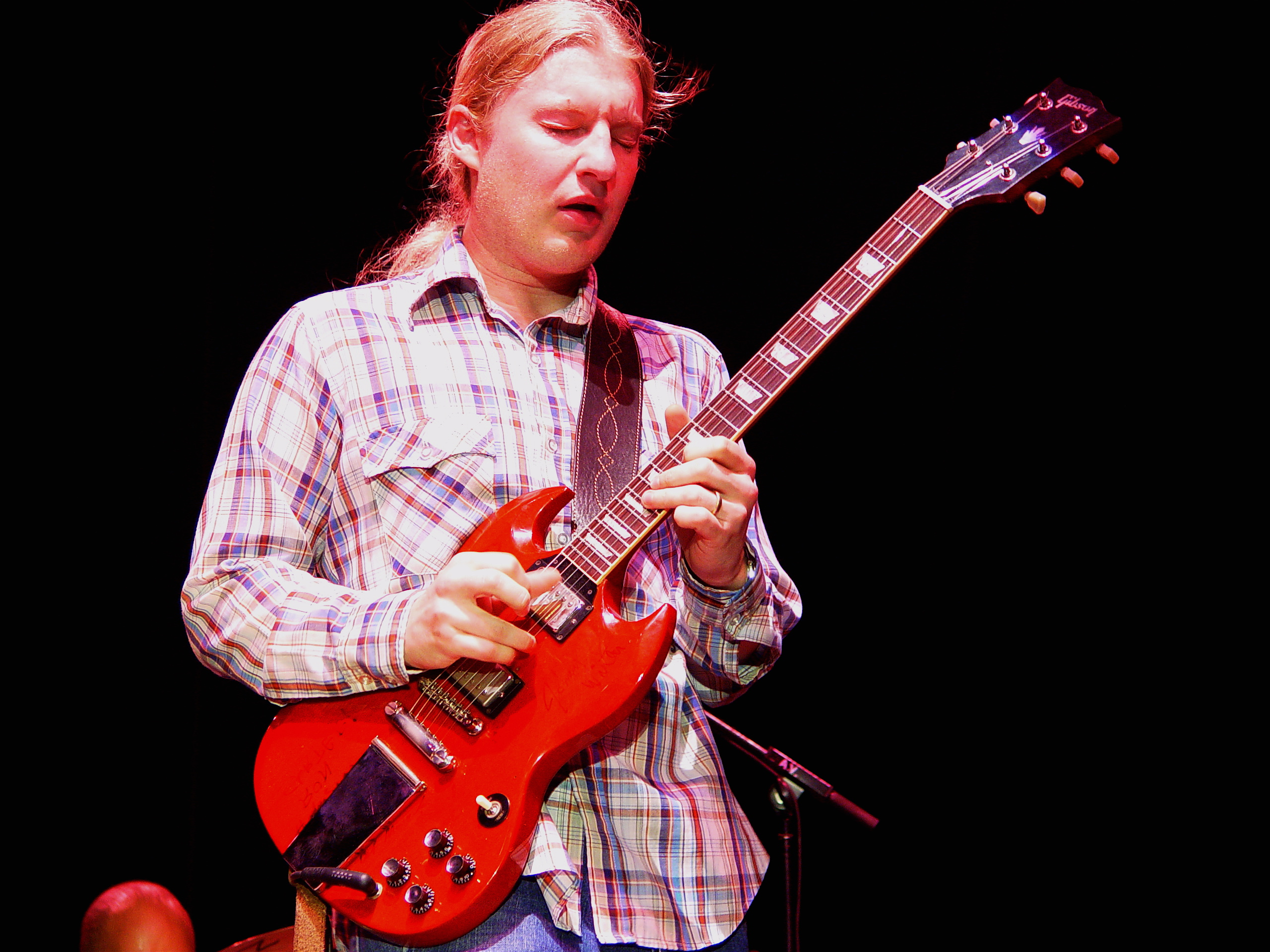 Derek Trucks